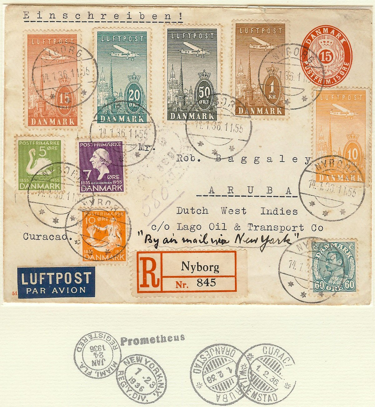 Scan of 1936 airmail letter from Denmark to Netherlands Antilles